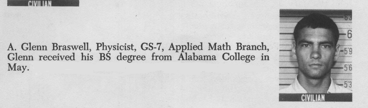 Braswell, Glenn - Underseer 07-16-65 for Wikipedia